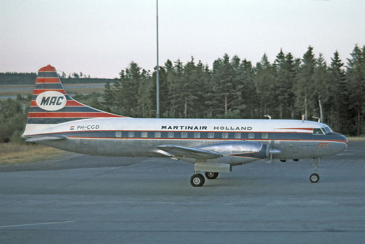 Martin's Air Charter (Martinair) Convair 640 PH-CGD at Stockholm-Arlanda Airport